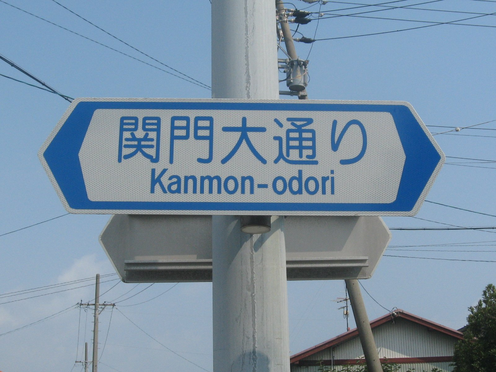 Japan Road Sign (Street Name)